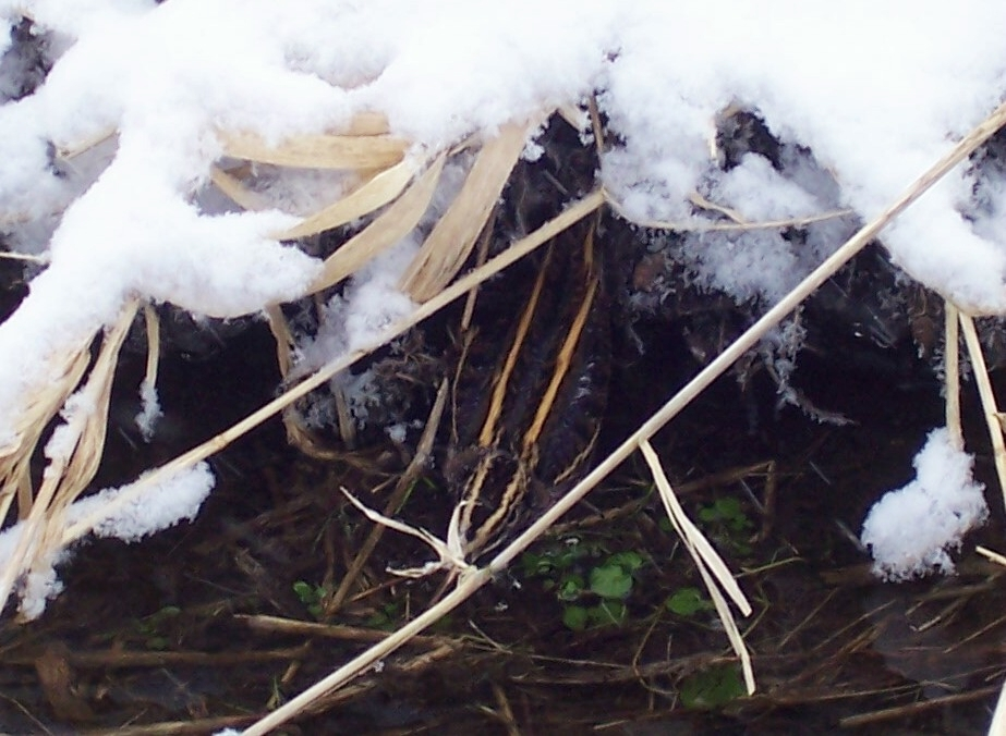 Jack Snipe (Lymnocryptes minimus) in the nature reserve "Feuchtgrünland am Hengstbecker Bach", municipality of Eslohe, Hochsauerland county, Germany.